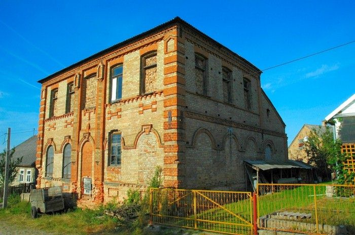 Slonim Synagogue in Krynki